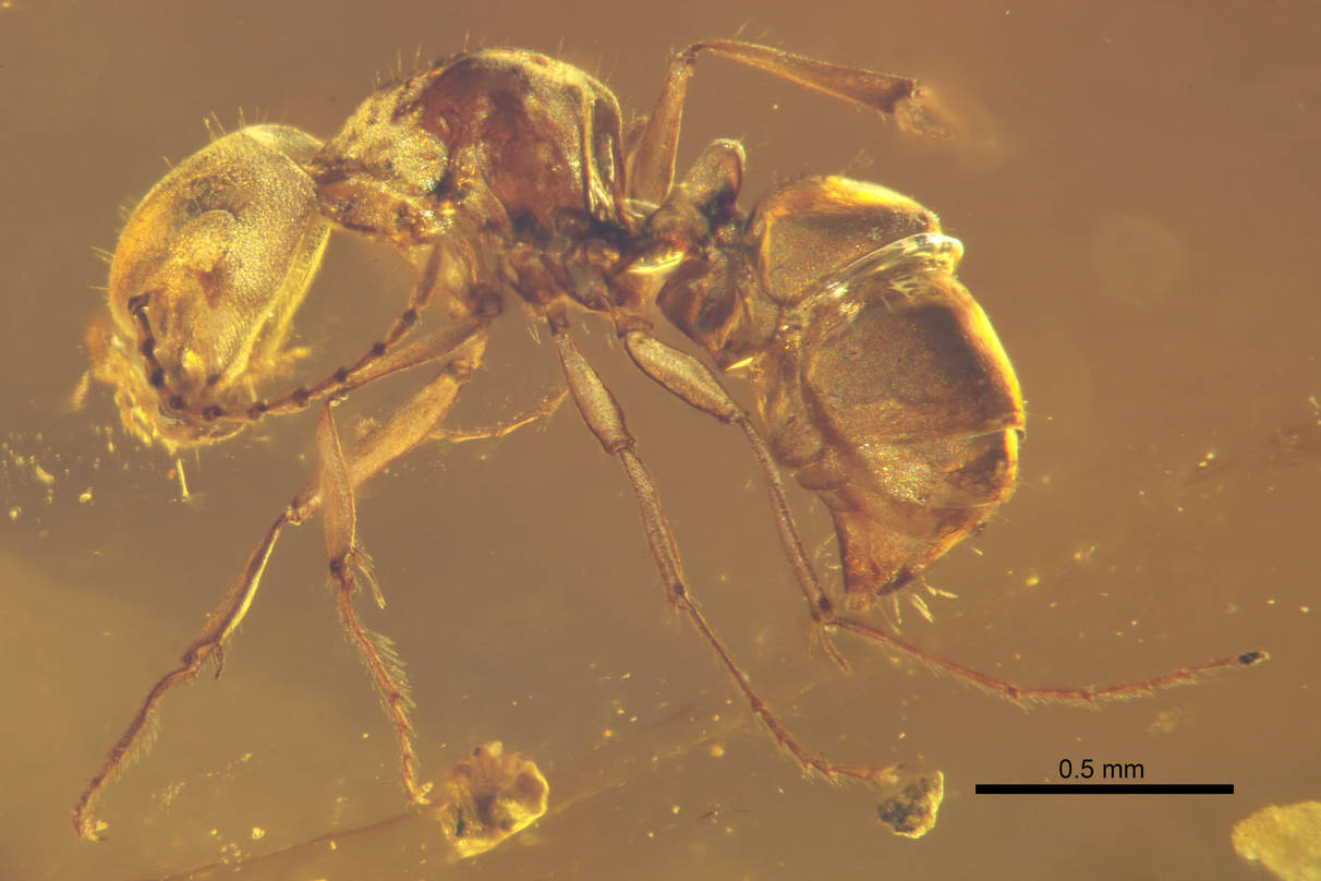 Profile view of the Zigrasimecia ferox paratype, specimen JWJ-Bu17. Burmese amber, Cenomanian (99mya), Hukawng Valley, Myanmar